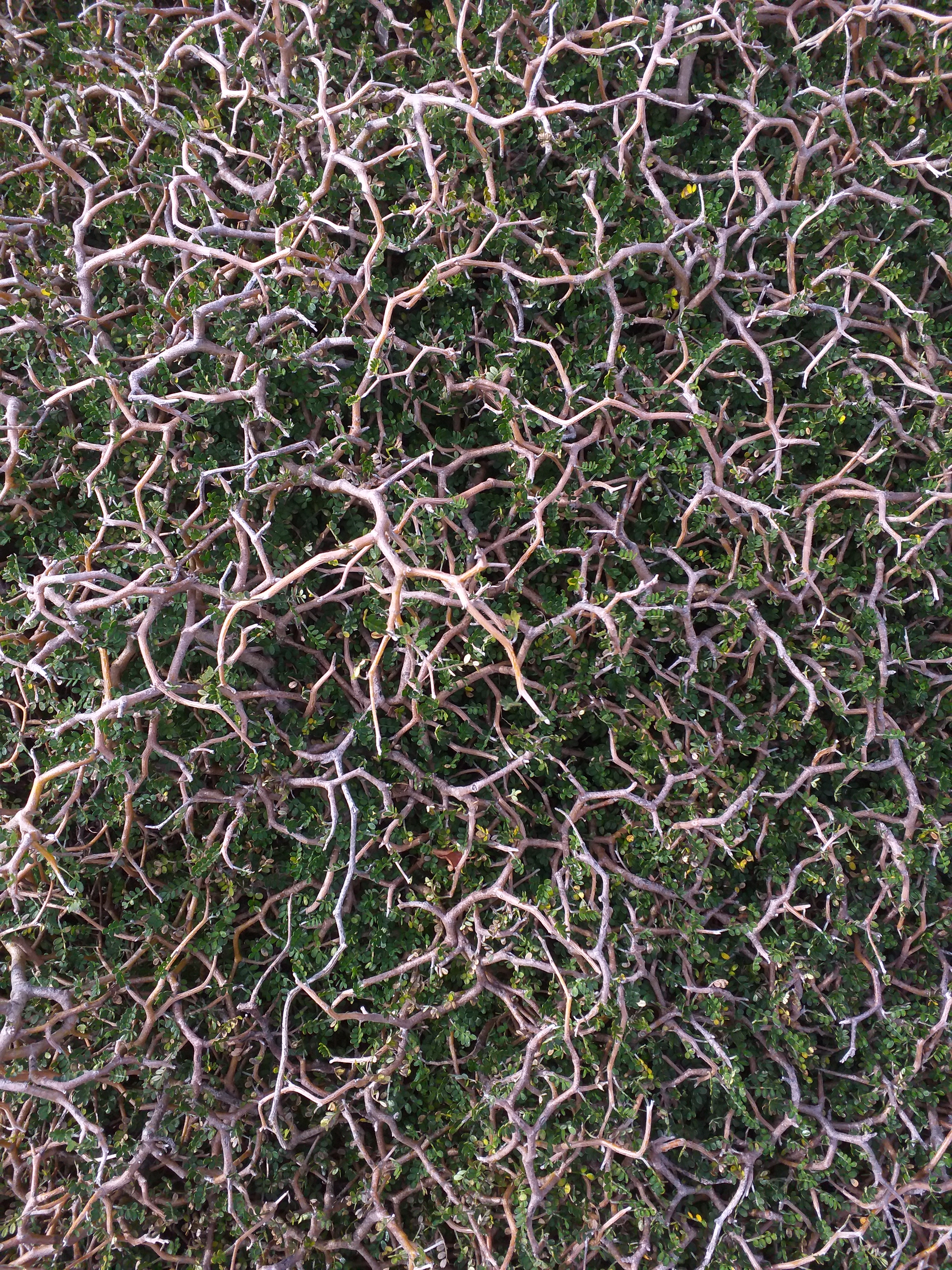 A mature Sophora prostrata bush at Chaeteris Bay, Banks Peninsula showing characteristic divaricating branching patters